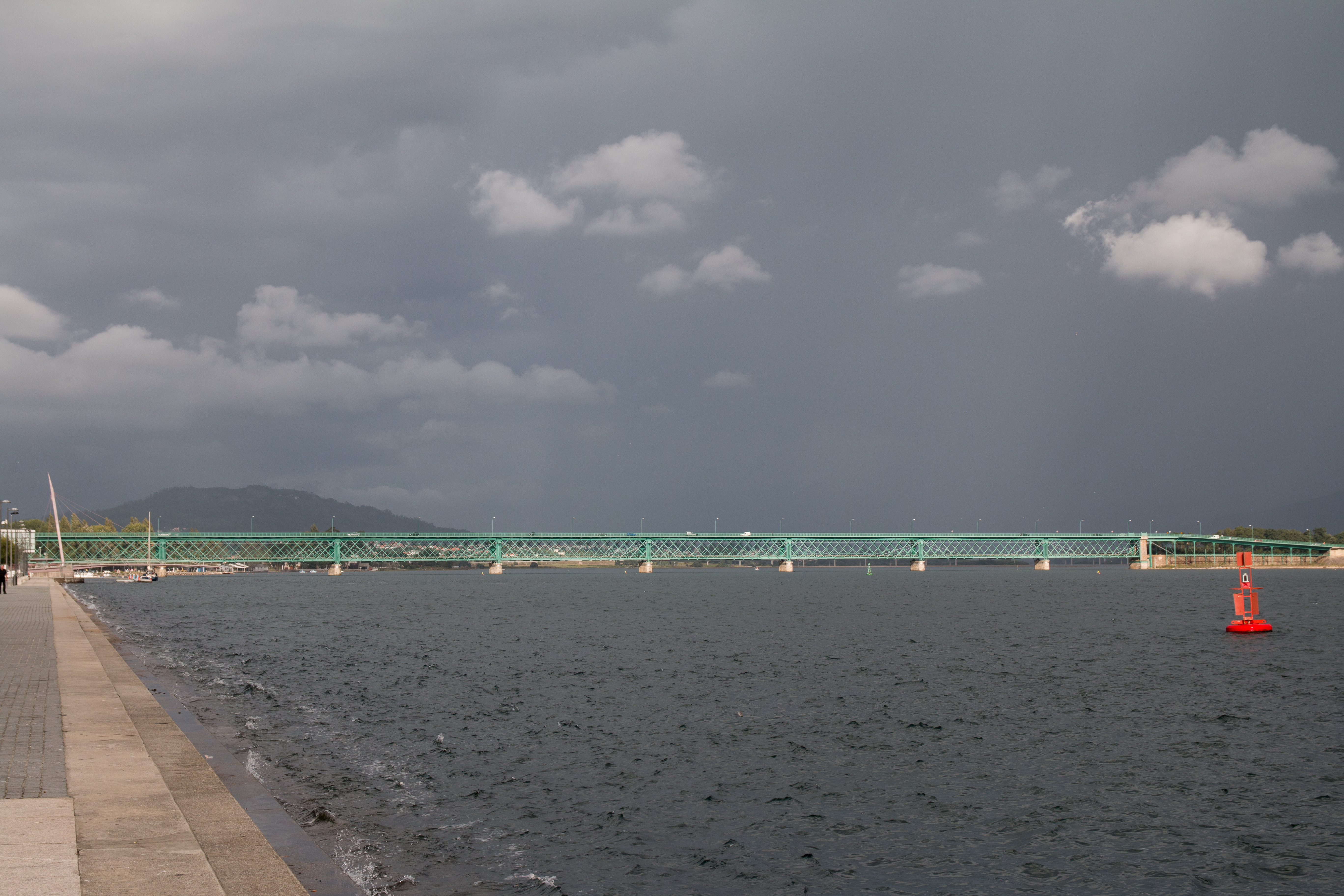 Road and raiwayl metal bridge over the river Lima, built by the engineer Eiffel. This building is classified as Em estudo.